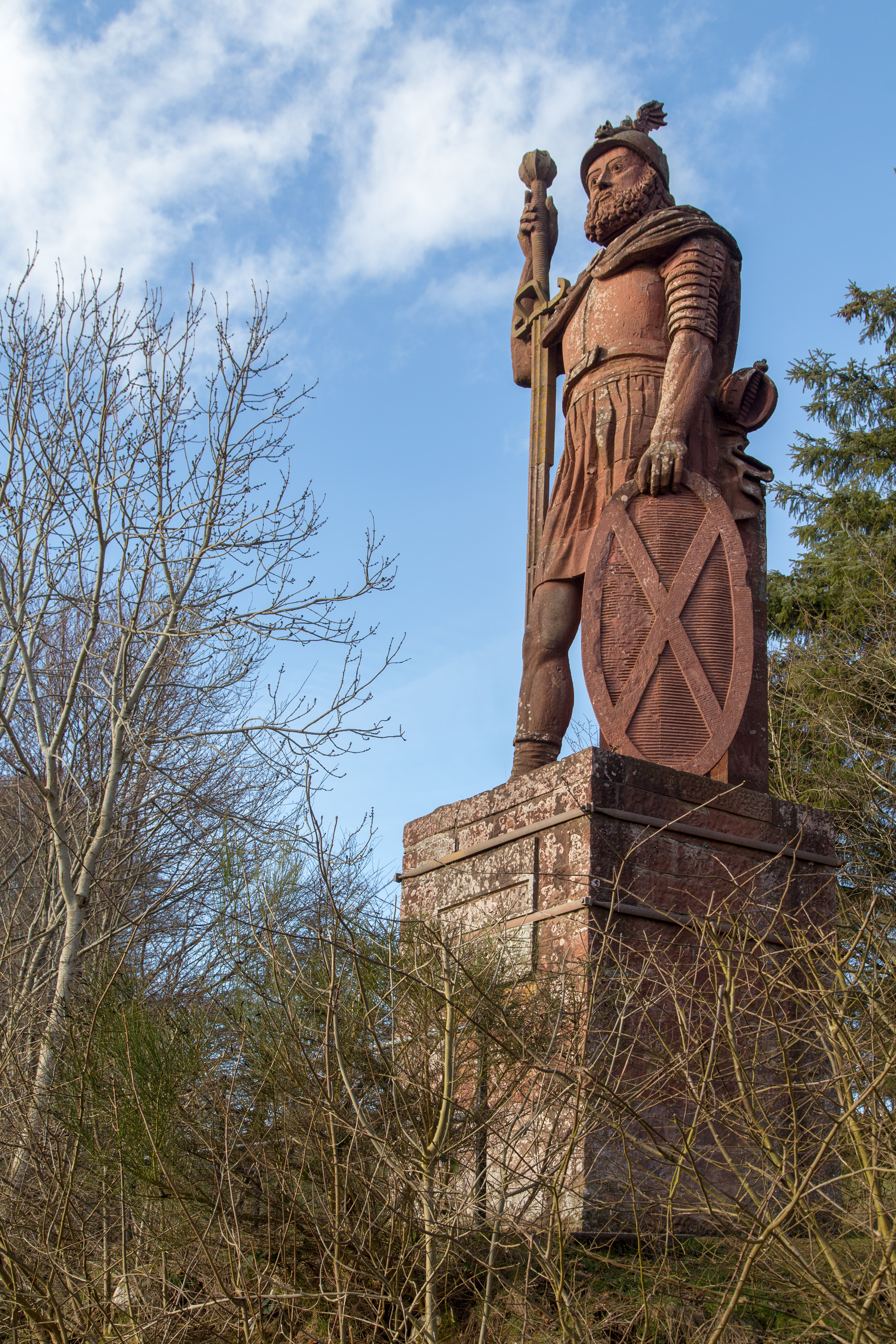 Dryburgh, Wallace's Statue And Ornamental Urn Wikidata has entry Q17844111 with data related to this item.